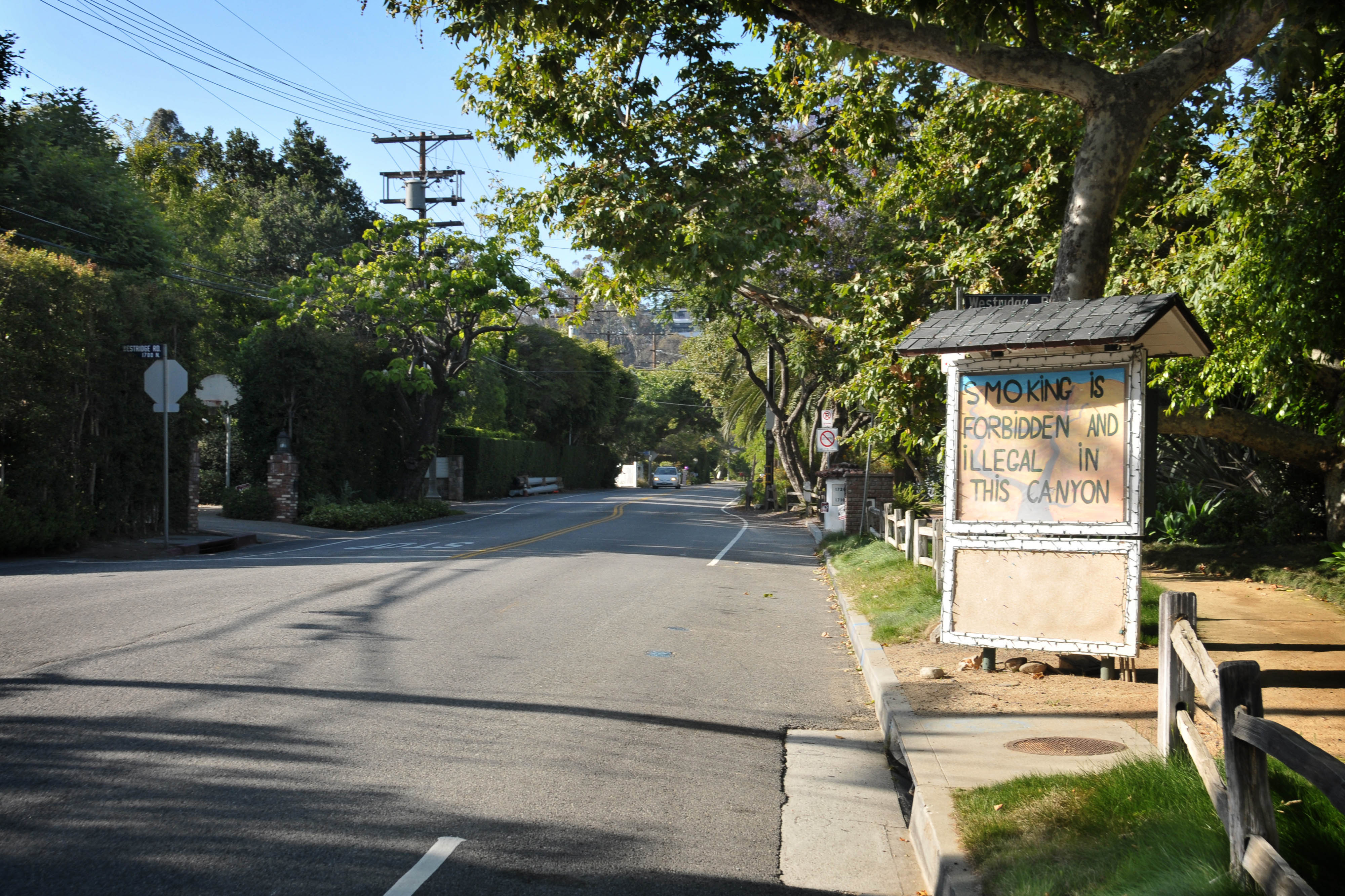 Mandeville Canyon Road looking North from Westridge Road- Photo by Glenn Francis of